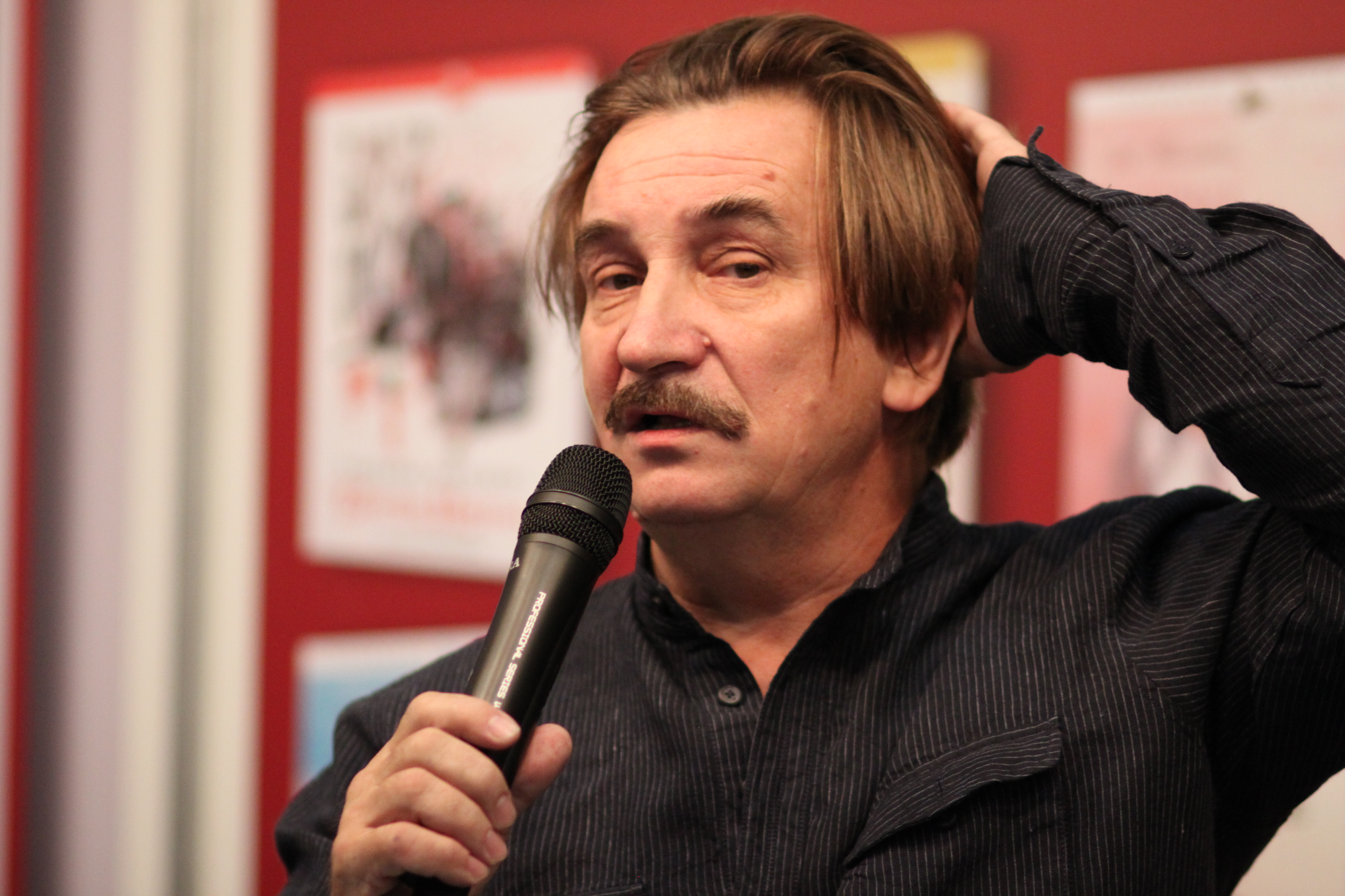 Victor Tikhomirov